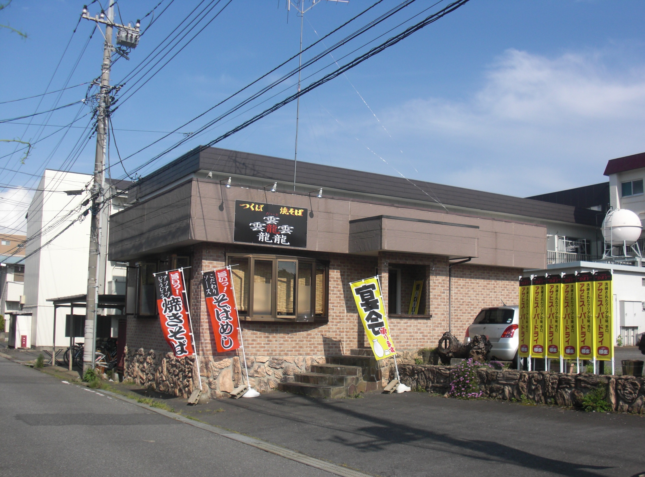 This is a shop in Japan.